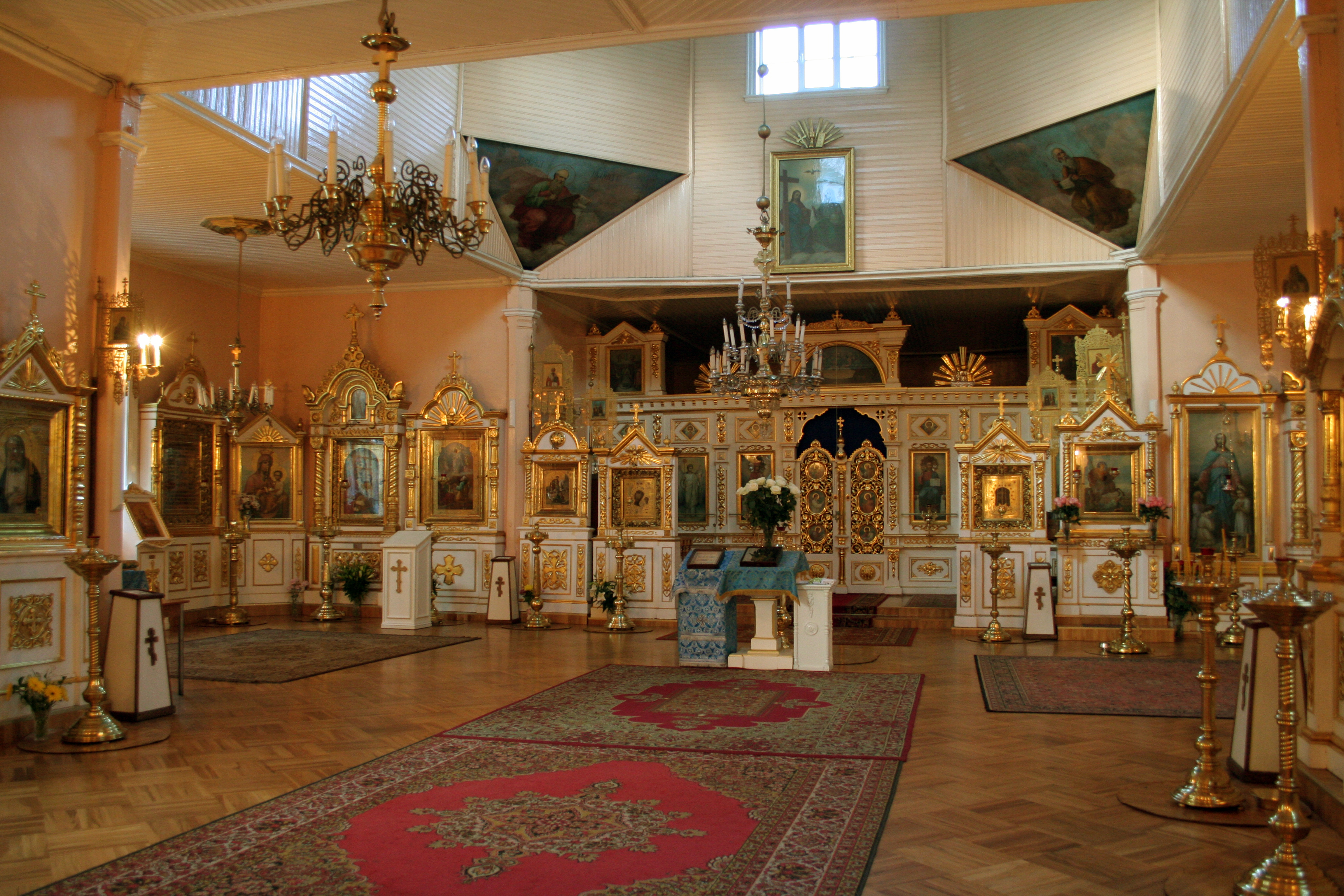 Church of Dimitry Solunsky (St. Petersburg, Kolomyagi, 1st Nikitskaya str, 1)